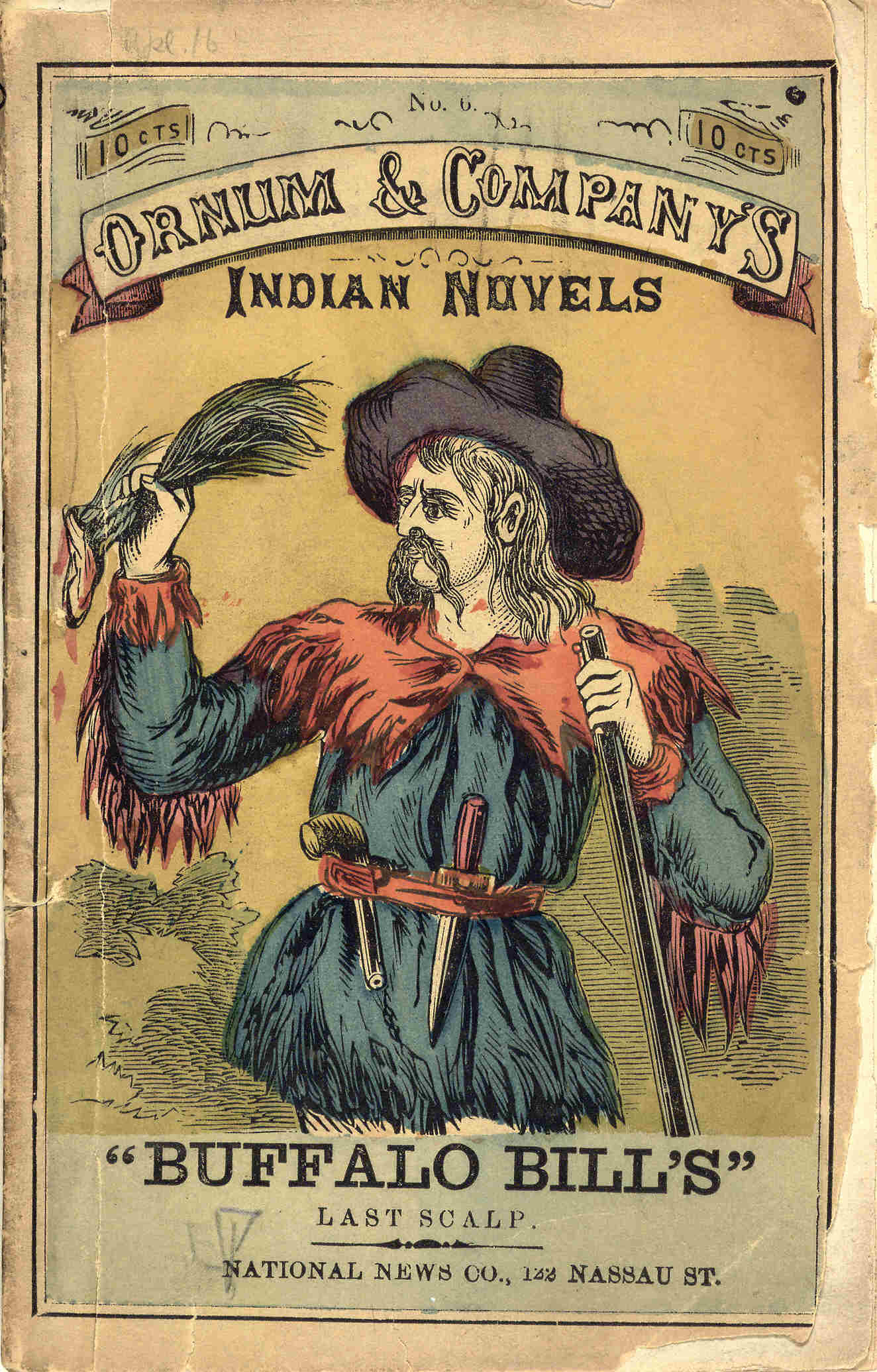 Buffalo Bill's Last Scalp (Ornum and Company's Indian Novels, No. 6). 1872 [1].